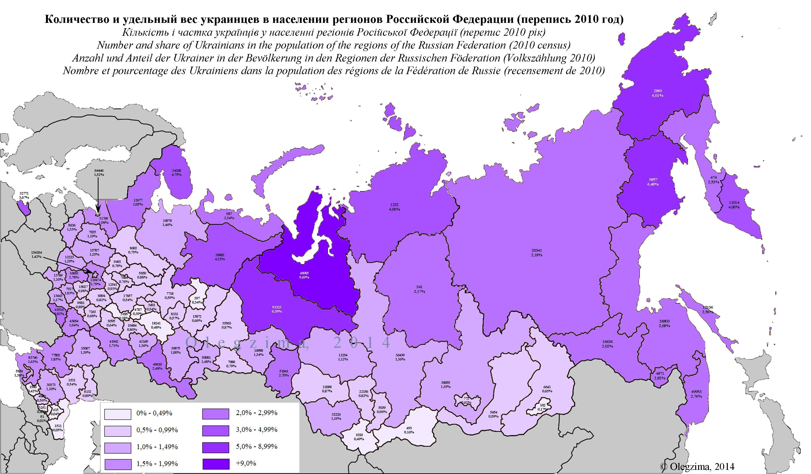 Number and share of Ukrainians in the population of the regions of the Russian Federation (2010 census)